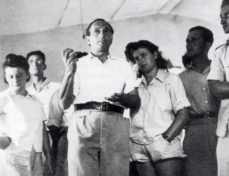 Yohanan Simon at the Painters Association Seminar, Givat Haviva 1949. Photo: Ephraim Erde